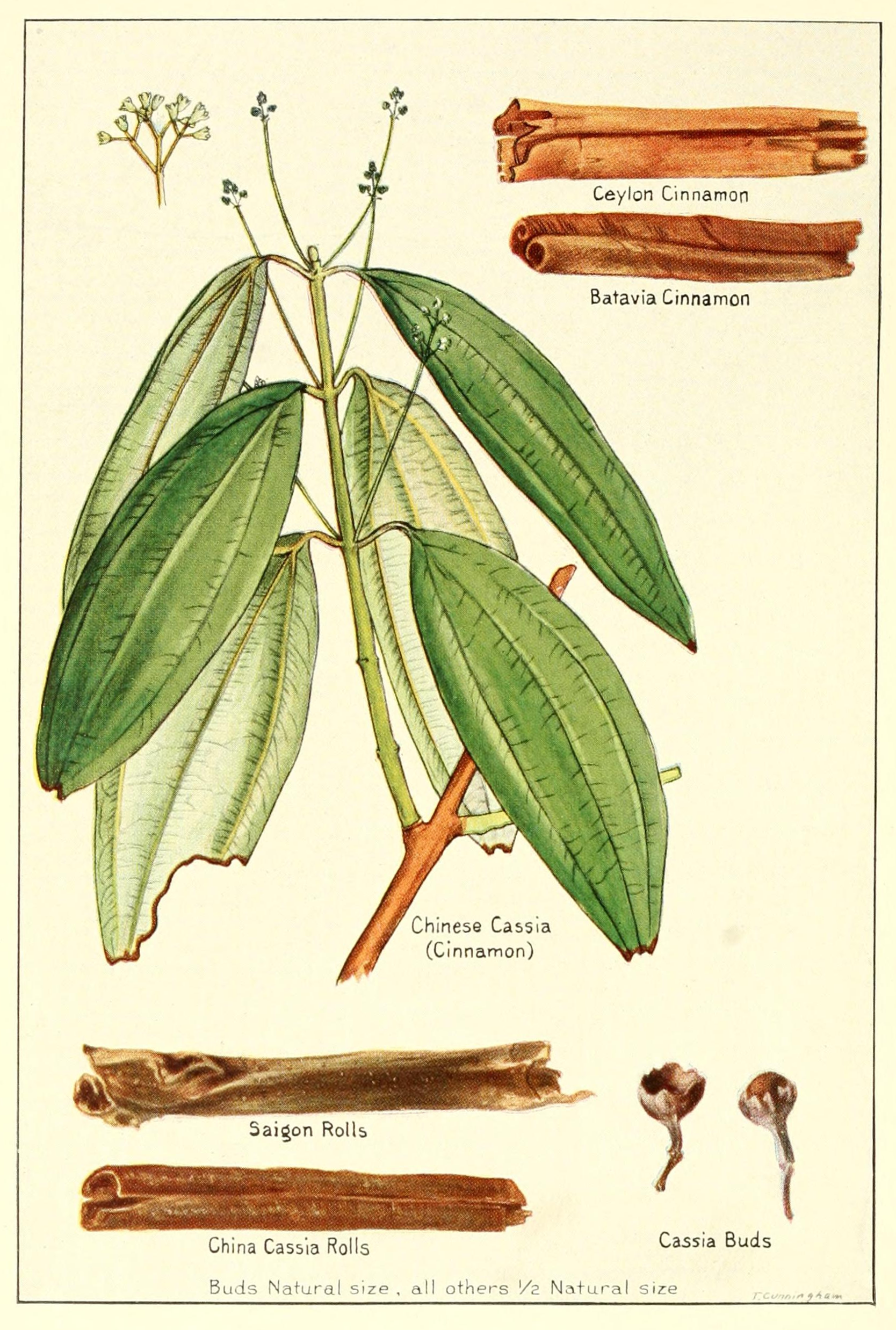 Describes cinnamon, cassia according to geographical locations: Ceylon, Batavia, China, Saigon.